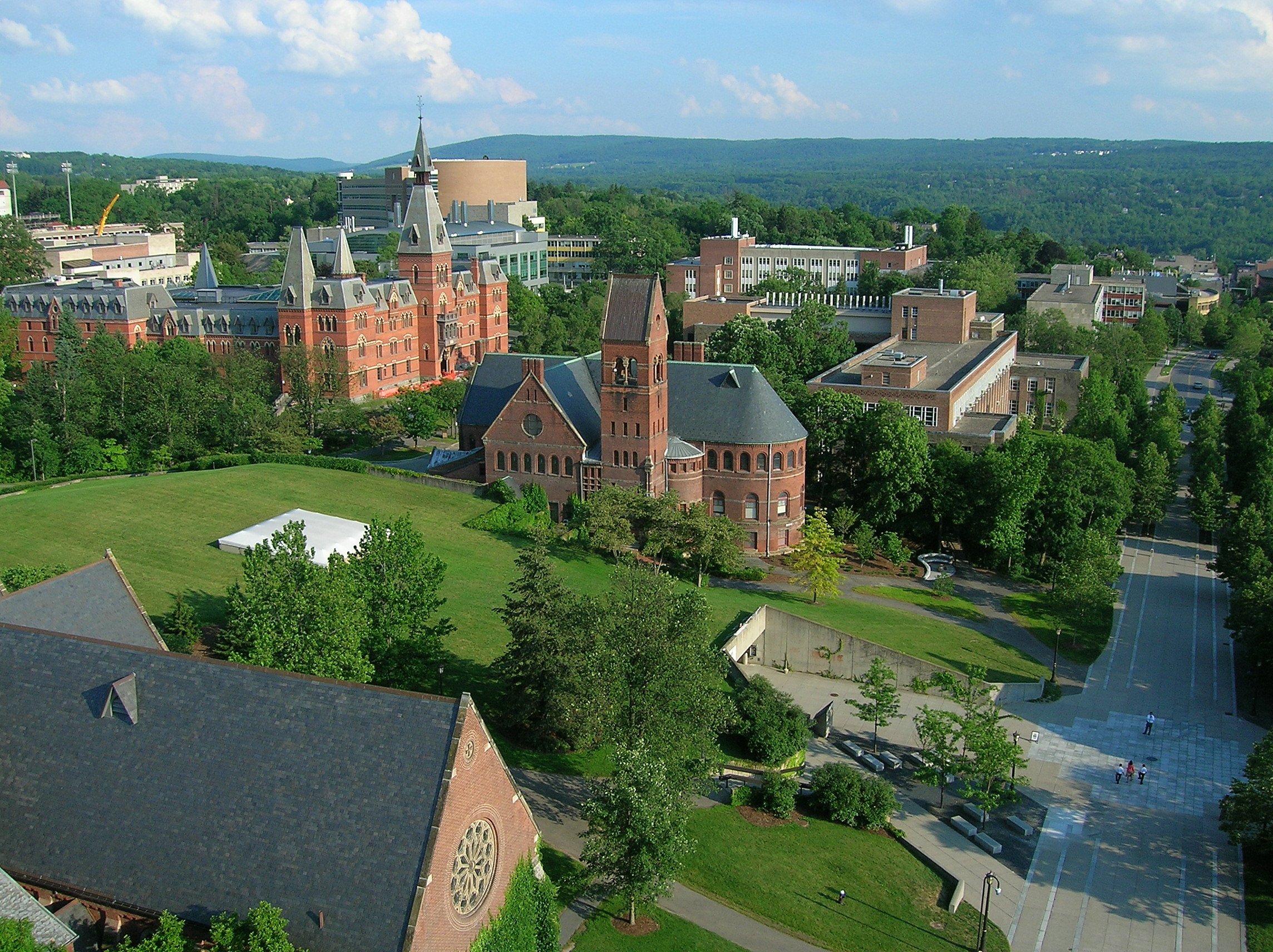 Cornell University from atop McGraw Tower looking southeast; Barnes Hall, Sage Hall